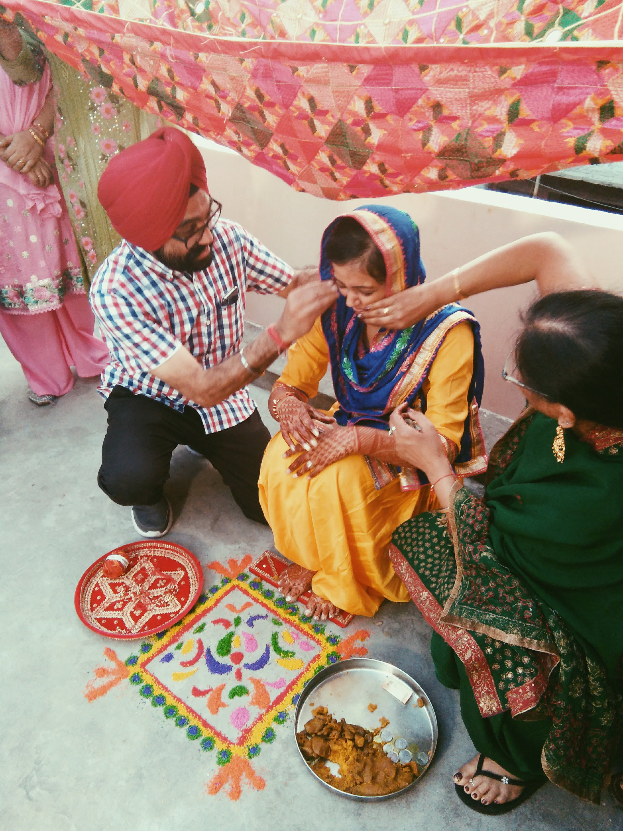 This photo has been taken in the country: India